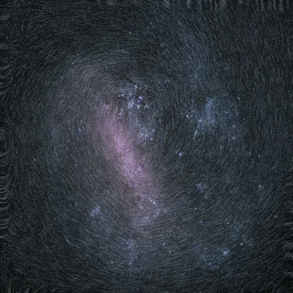 The Large Magellanic Cloud (LMC), one of the nearest galaxies to our Milky Way, as viewed by ESA’s Gaia satellite using information from the mission’s second data release. This image combines the total amount of radiation detected by Gaia in each pixel with measurements of the radiation taken through different filters on the spacecraft to generate colour information. Information about the proper motion of stars – their velocity across the sky – is represented as the texture of the image. Measuring the proper motion of several million stars in the LMC, astronomers were able to see an imprint of the stars rotating clockwise around the centre of the galaxy. The image processing technique used to create this image is called Line Integral Convolution. Acknowledgement: Gaia Data Processing and Analysis Consortium (DPAC); A. Moitinho / A. F. Silva / M. Barros / C. Barata, University of Lisbon, Portugal; H. Savietto, Fork Research, Portugal; P. McMillan, Lund Observatory, Sweden